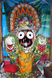 I hold the copyright for this photo..... Any one can use this file.....